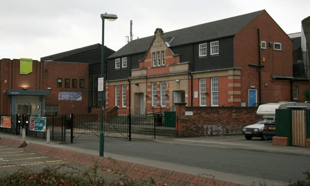 Portland Leisure Centre The Portland Swimming Baths date from 1914 and was adjacent to the tram depot which has now been incorporated into the modern leisure centre.